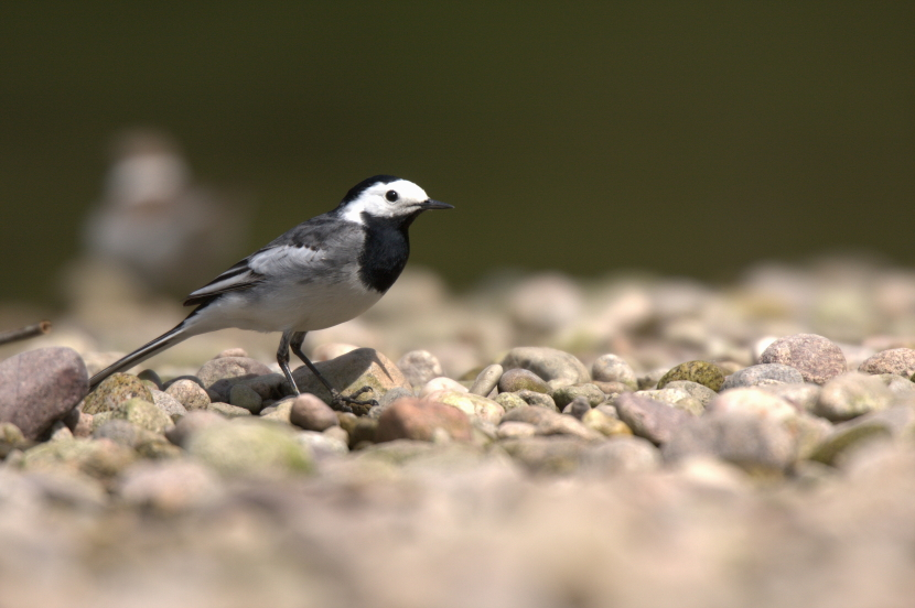 White Wagtail Motacilla alba